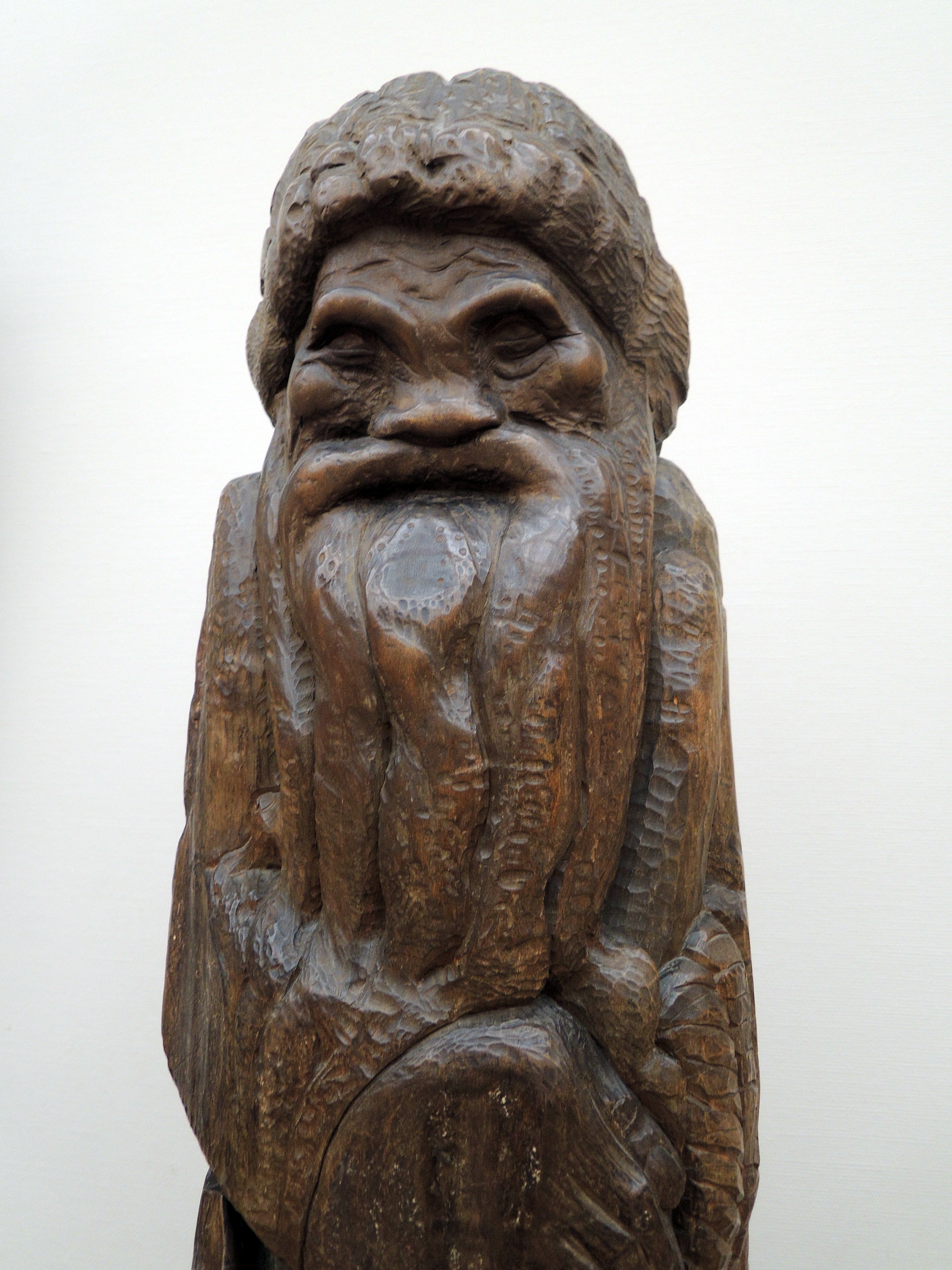 Starichok-polevichok by Konenkov (1910, Tretyakov gallery)